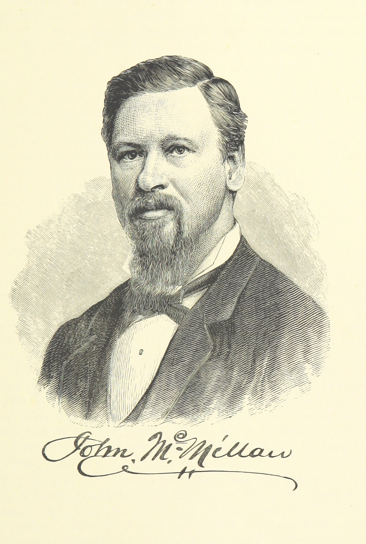 John McMillan, politician from Ontario Image taken from: "History of Toronto and County of York, Ontario; containing an outline of the history of the Dominion of Canada ... biographical sketches, etc., etc. [By C. P. Mulvany, G. M. Adam and others.] Illustrated", "Appendix" Shelfmark: "British Library HMNTS 10470.p.2." Volume: 01 Page: 671 Place of Publishing: Toronto Date of Publishing: 1885 Publisher: C. Blackett Robinson Issuance: monographic Identifier: 003656148